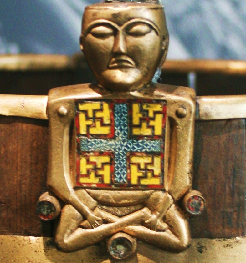 anthropomorphic brass ornament at the handle of the "Buddha-bucket" (Buddha-bøtte), found with the Oseberg ship burial (ca. 800 CE).